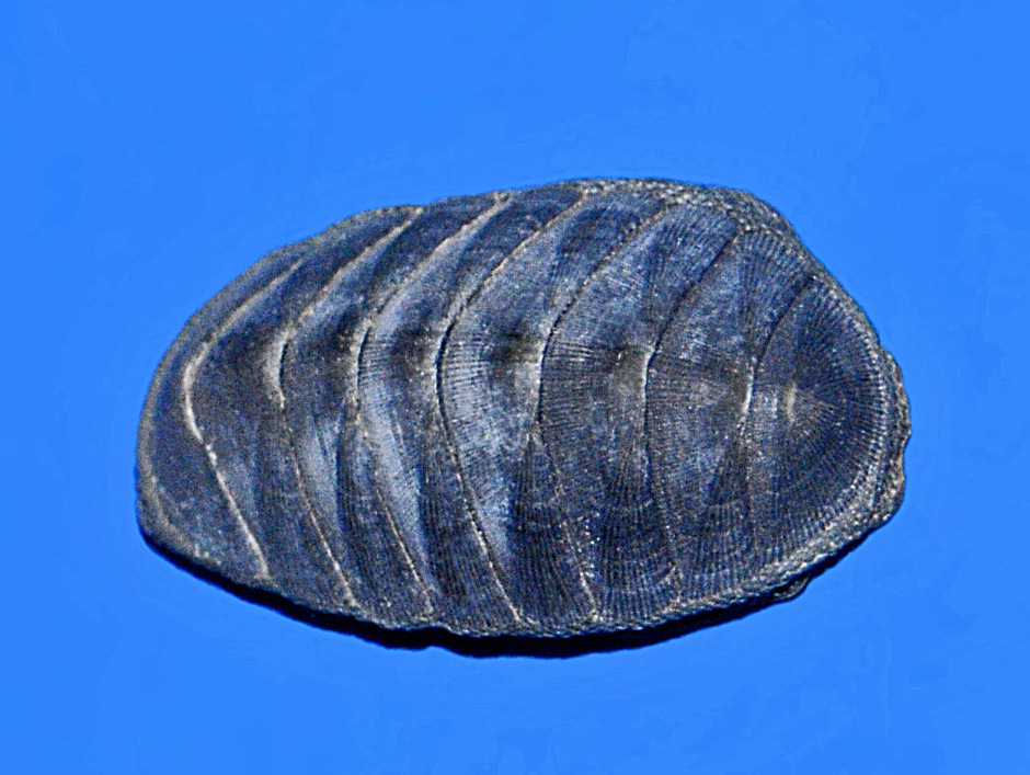 Museum specimen of Chiton glaucus from New Zealand